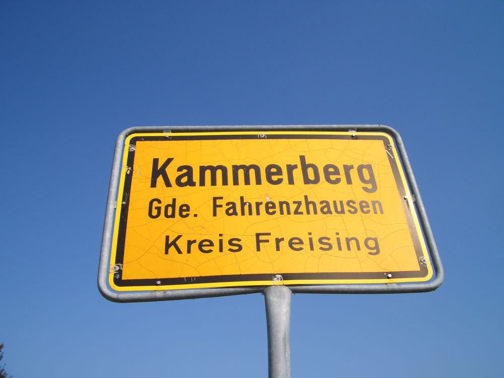 City limits sign of Kammerberg (Fahrenzhausen), Bavaria, Germany